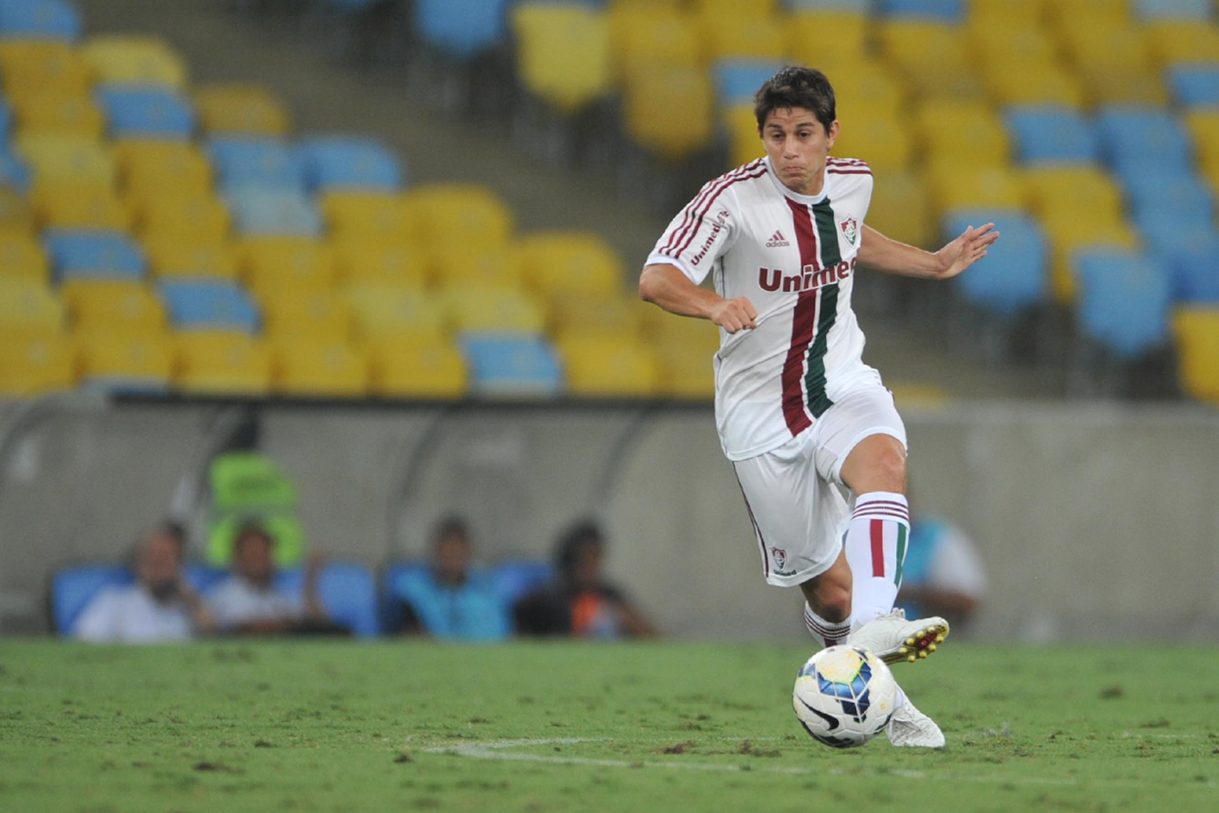 Rio de Janeiro, Rio de Janeiro, Brasil, 03 abril 2014 – Maracanã, Copa do Brasil – 1ª fase – Jogo de volta – Fluminense x Vitória – CONCA. Foto: Moyses Ferman/Fotosflu